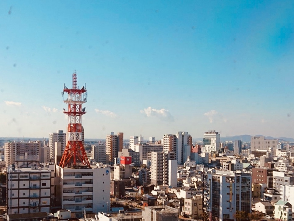 ToyohashiSkyline